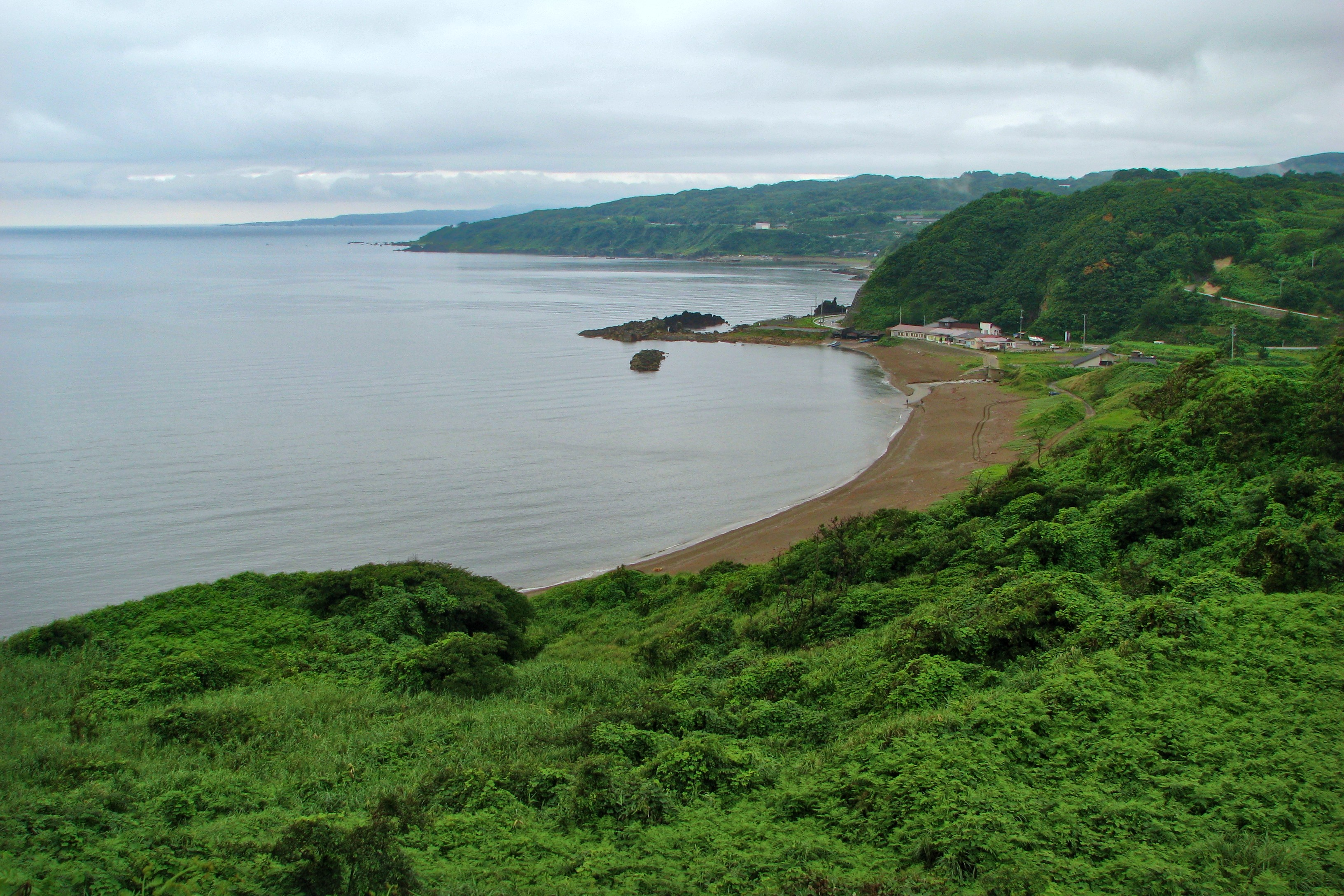 View of Sadogashima island (Niigata, Japan).